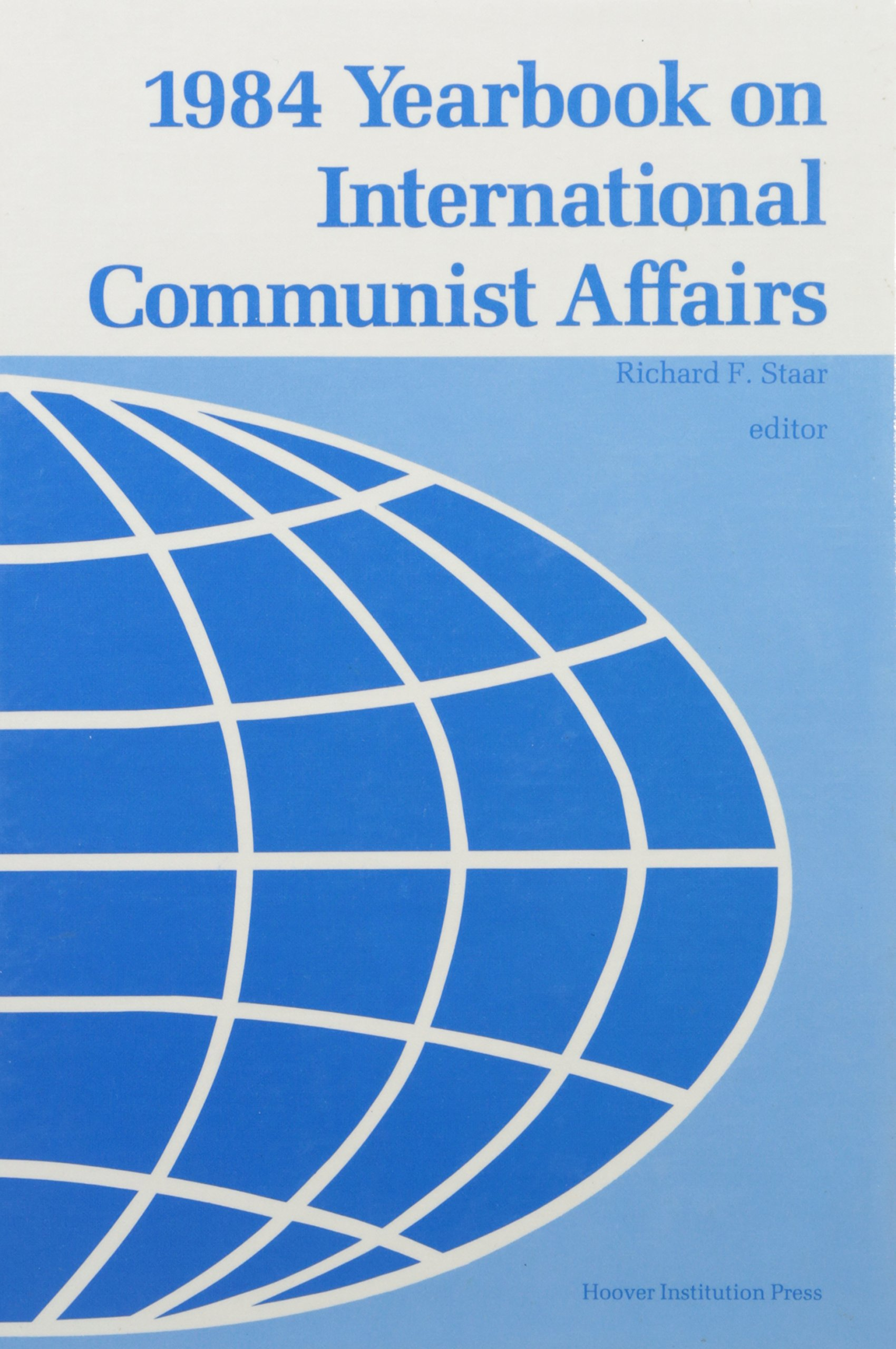 1984 Yearbook on International Communist Affairs (Book cover), published by the Hoover Institution Press, Stanford University. Edited by Ricahrd F. Staar.